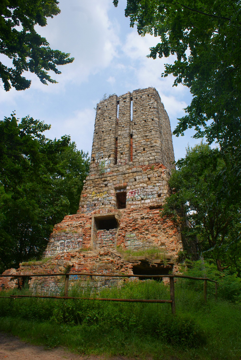 Bismarck Tower in Zary (Poland)